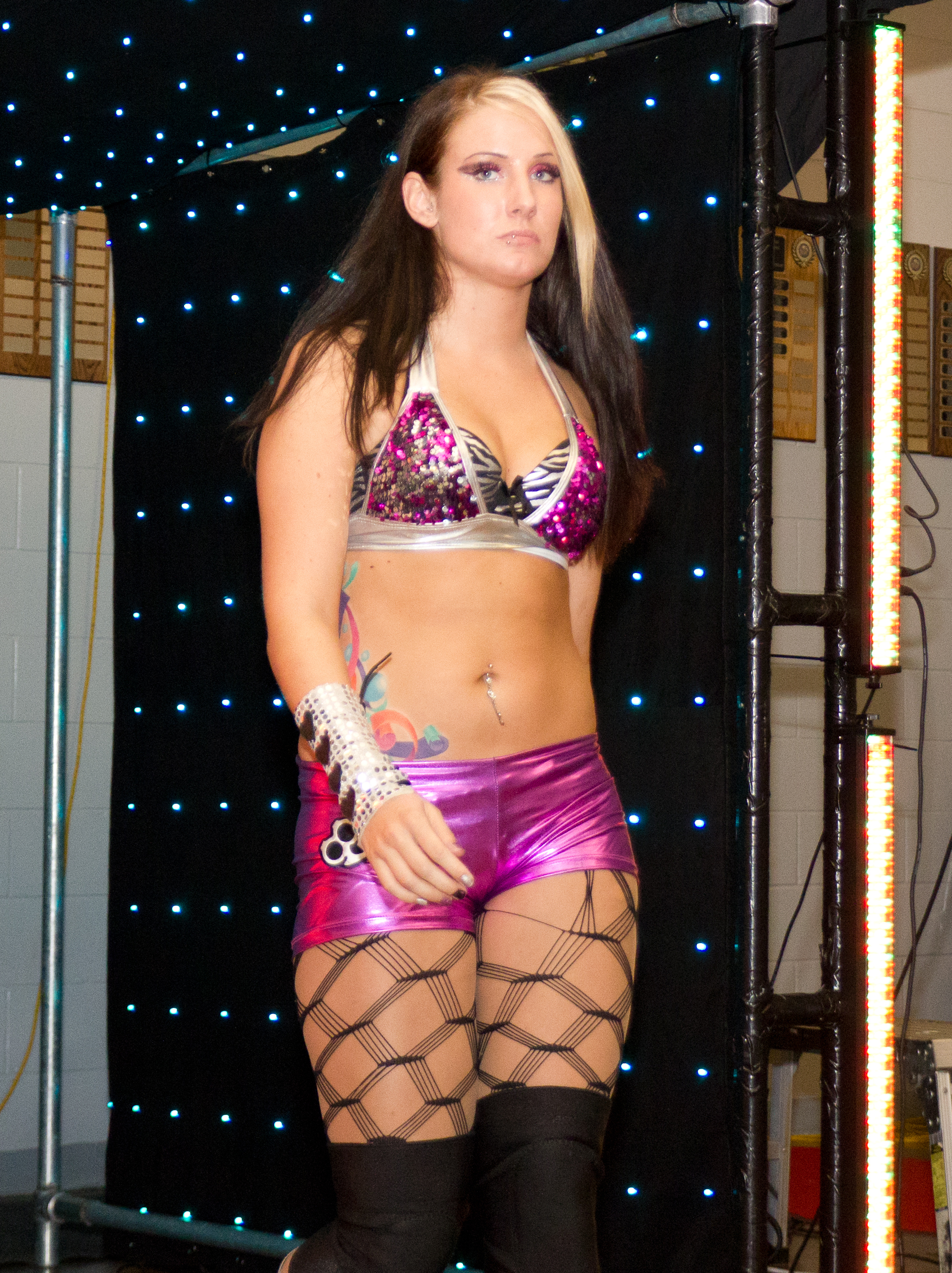 Allysin Kay at a TCW show in Kitchner, Ontario, Canada, in July 2011. Cropped from original.